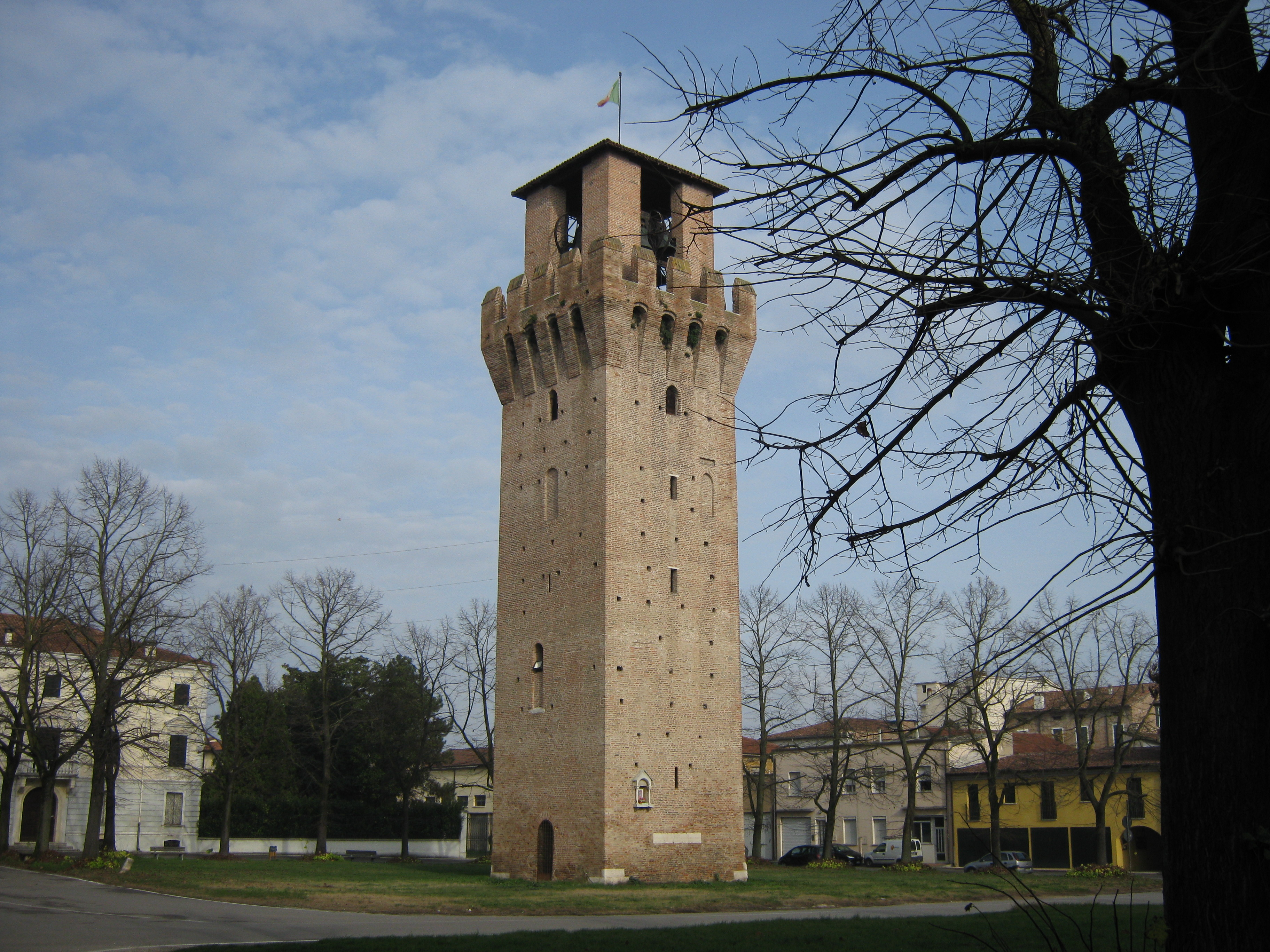 Ancient Castle Tower, Revere, Lombardia, Italy